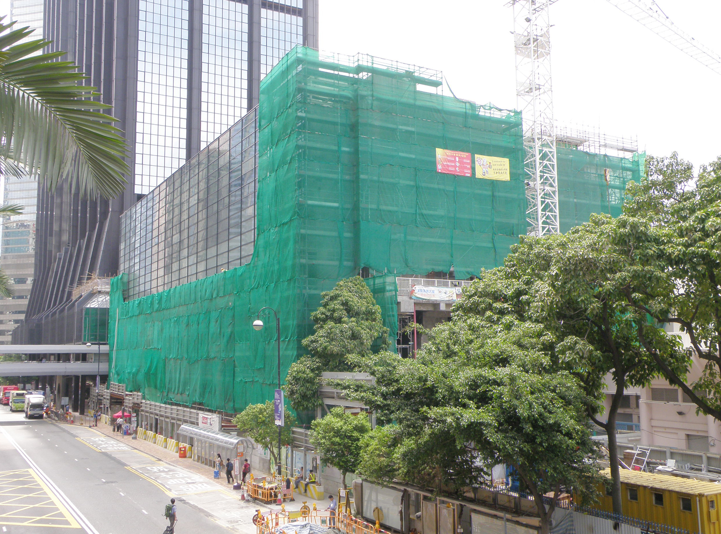 Harbour Road Sports Centre and Swimming Pool in Wan Chai, Hong Kong.